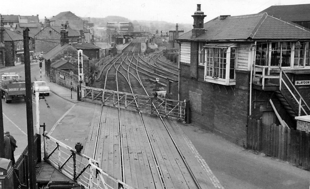 Blaydon Station. View NW, towards Hexham and Carlisle; ex-NER Newcastle - Carlisle main line. The line (via Scotswood) from Newcastle (Central) is coming in from the right behind the signalbox; the lines in the foreground are the Goods lines from Gateshead via Dunston, which were upgraded from 4/10/82 to form the main line from Newcastle, the line over Scotswood Bridge having been closed. Blaydon station is very different now, having been closed on 3/9/66 while through trains were run via North Wylam instead of Wylam until 11/3/68; it was then rebuilt due to vandalism!